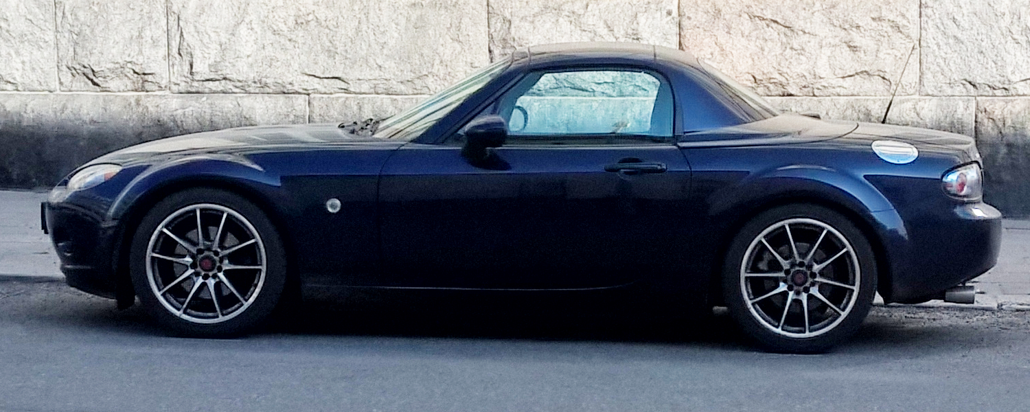 This is a photograph of Mazda MX-5 sports car.